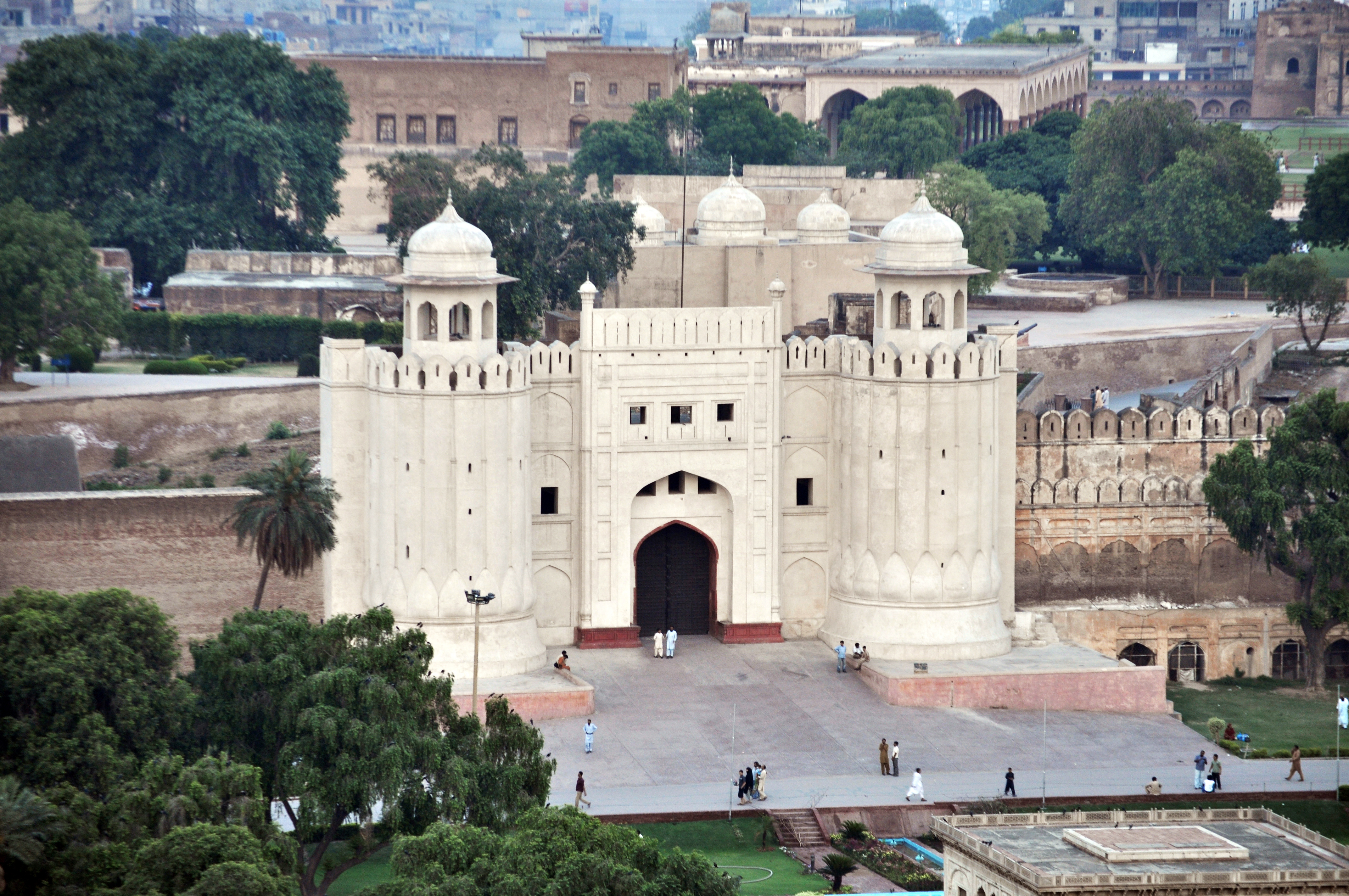 Lahore Fort complex (including Moti Masjid, Naulakha Pavilion, Sheesh Mahal and others) This is a photo of a monument in Pakistan identified as the PB-67